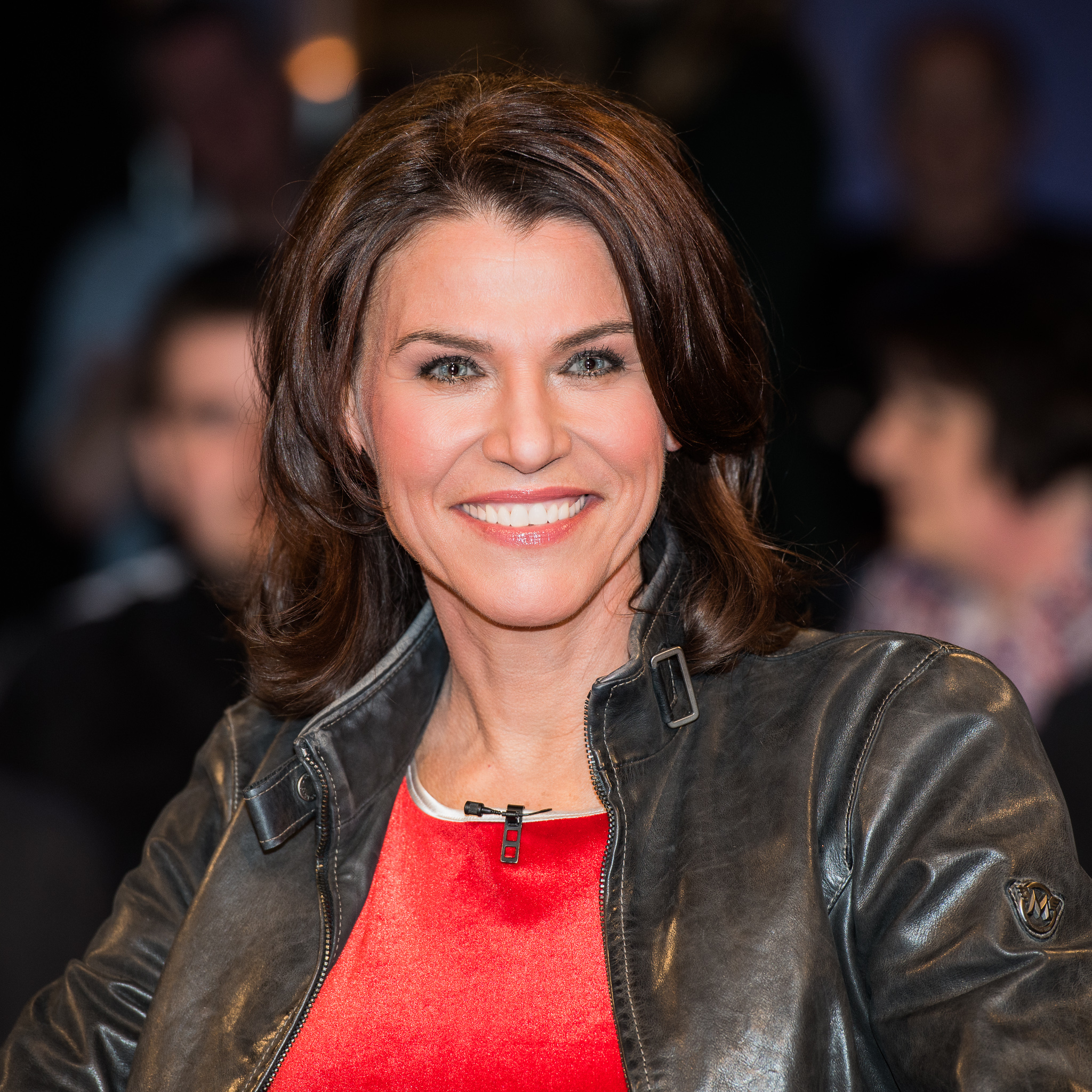 Live on tape,Marion Brigitta Kiechle,NDR Talk Show,Prof. Marion Kiechle